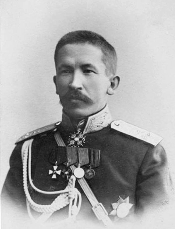 Lavr Georgievich Kornilov, 1916 Молдовеняскэ: Laur Gheorghievici Kornilov, 1916